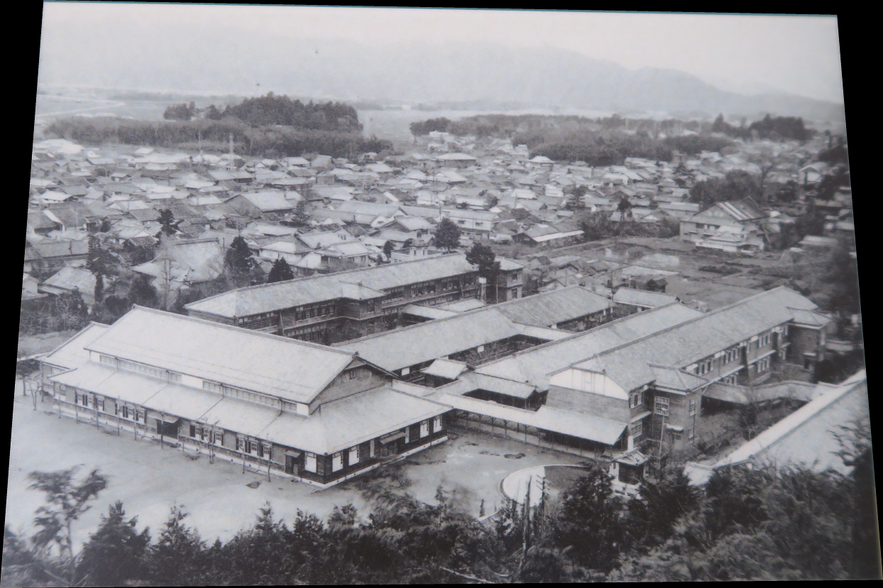 Former Minakuchi elementary school and Minakuchi town, Koka, Shiga, japan in 1937